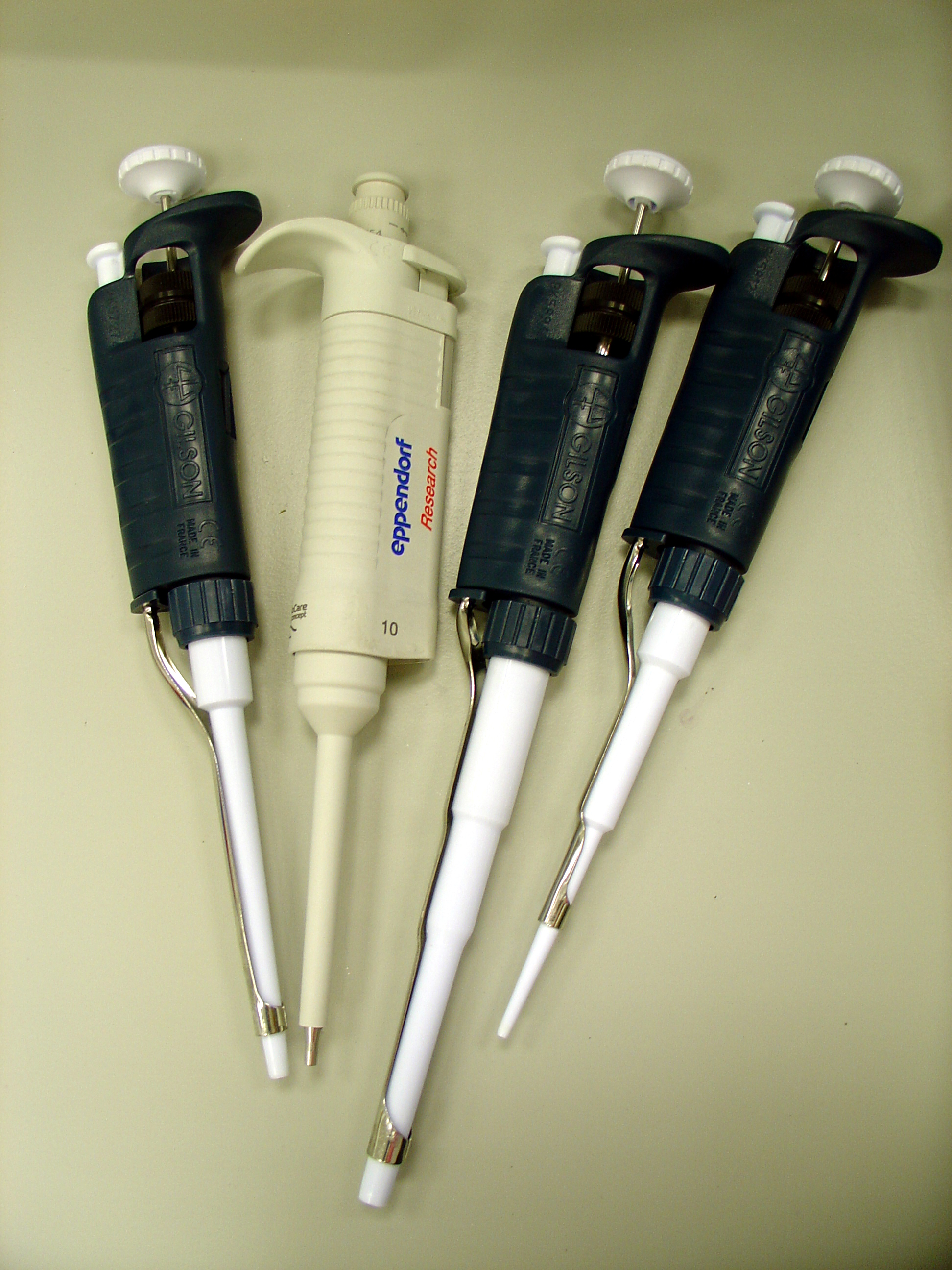 Micropipettes. From left to right: 50 microliters (μL) to 200 μL; 0,5 μL to 10 μL; 100 to 1000 μL; 1 to 20 μL.